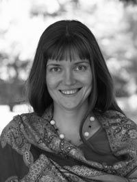 Russian dramatists and playwrights Ksenya Stepanycheva